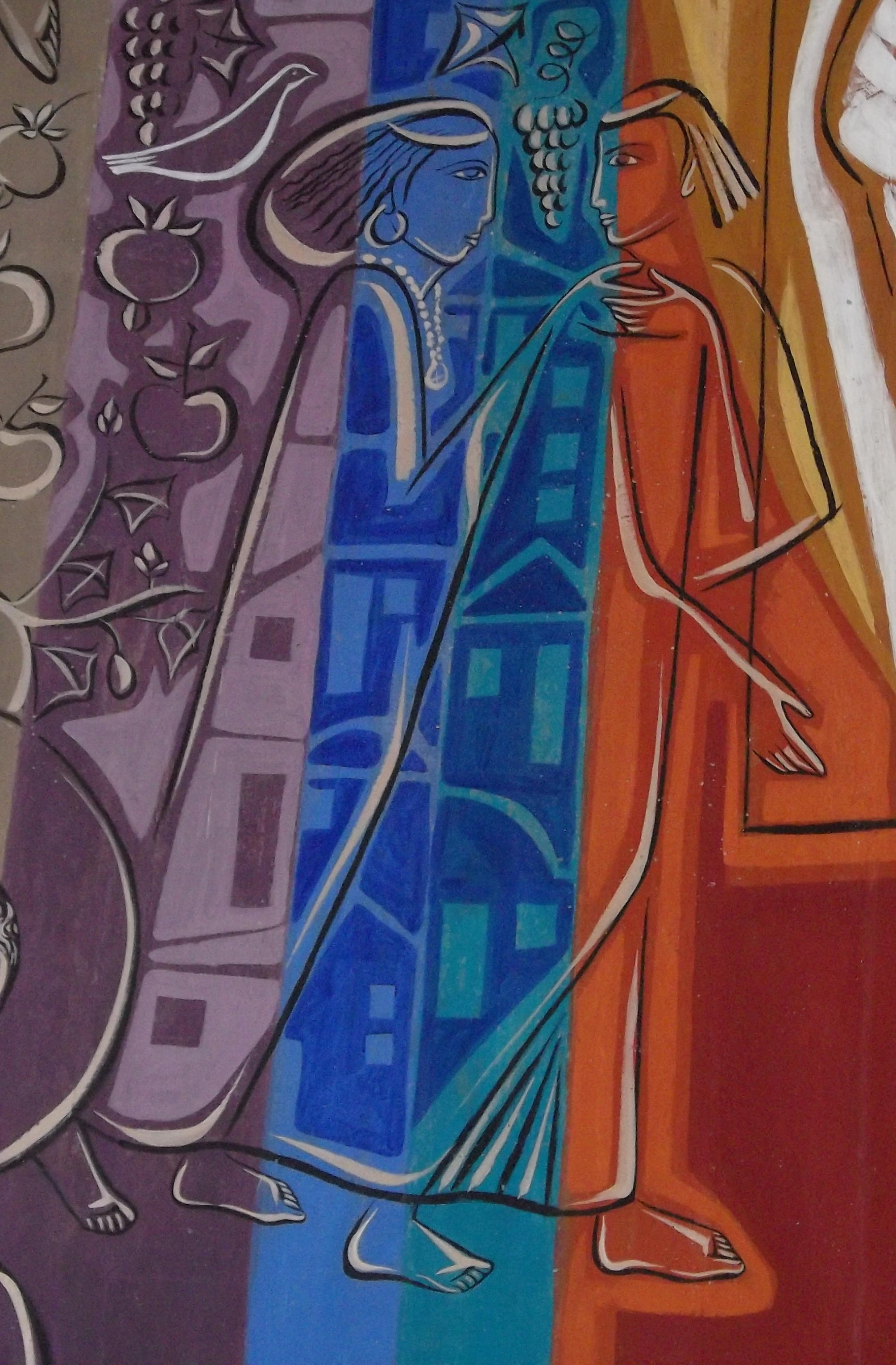 Virgin's Monastery (benedictine nuns), Petrópolis, Rio de Janeiro State, Brazil